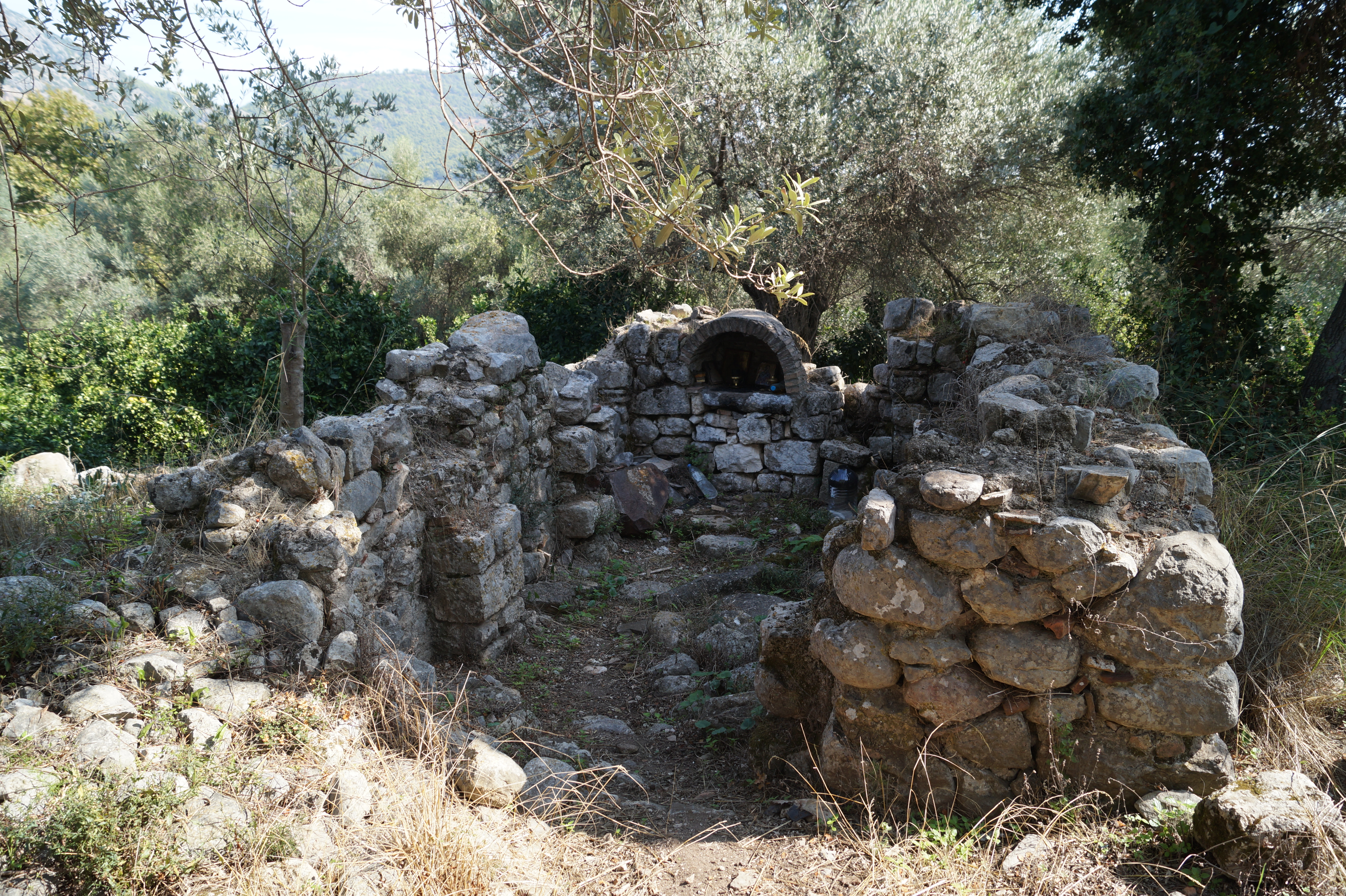 Epano Epidavros, Argolis, Greece: Ruins of the byzantine church Agios Nikolaos on the Kolotti hill at the western frontier of the village.